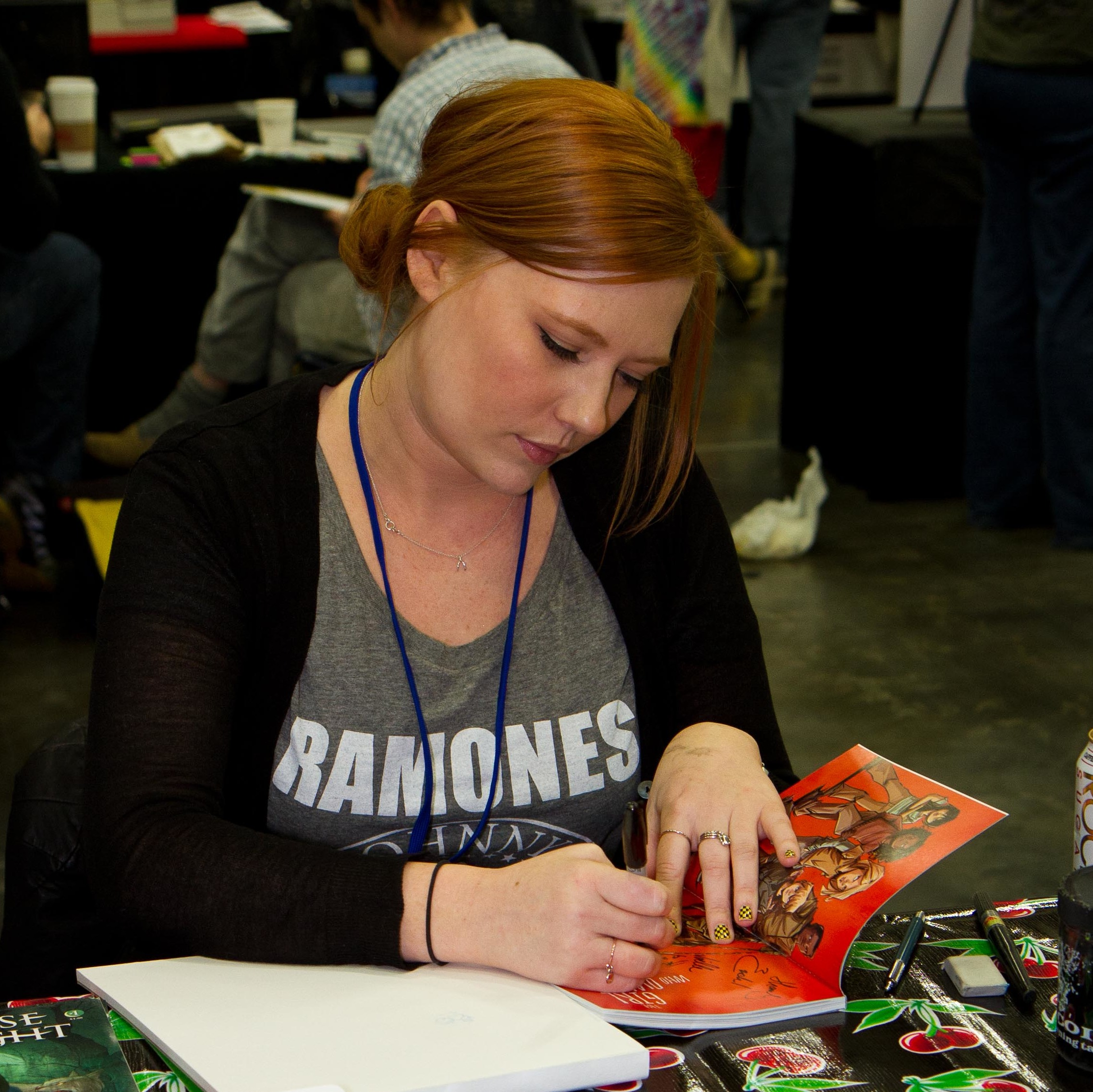 Joëlle Jones of Spell Checkers at Stumptown Comics Fest